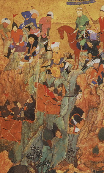 Timur's army attacks the survivors of the town of Nerges, in Georgia, in the spring of 798/1396. A miniature from the 16th-century '‘Zafar-namah’' of Sultan Husayn Mirza by the artist Kamāl ud-Dīn Behzād.